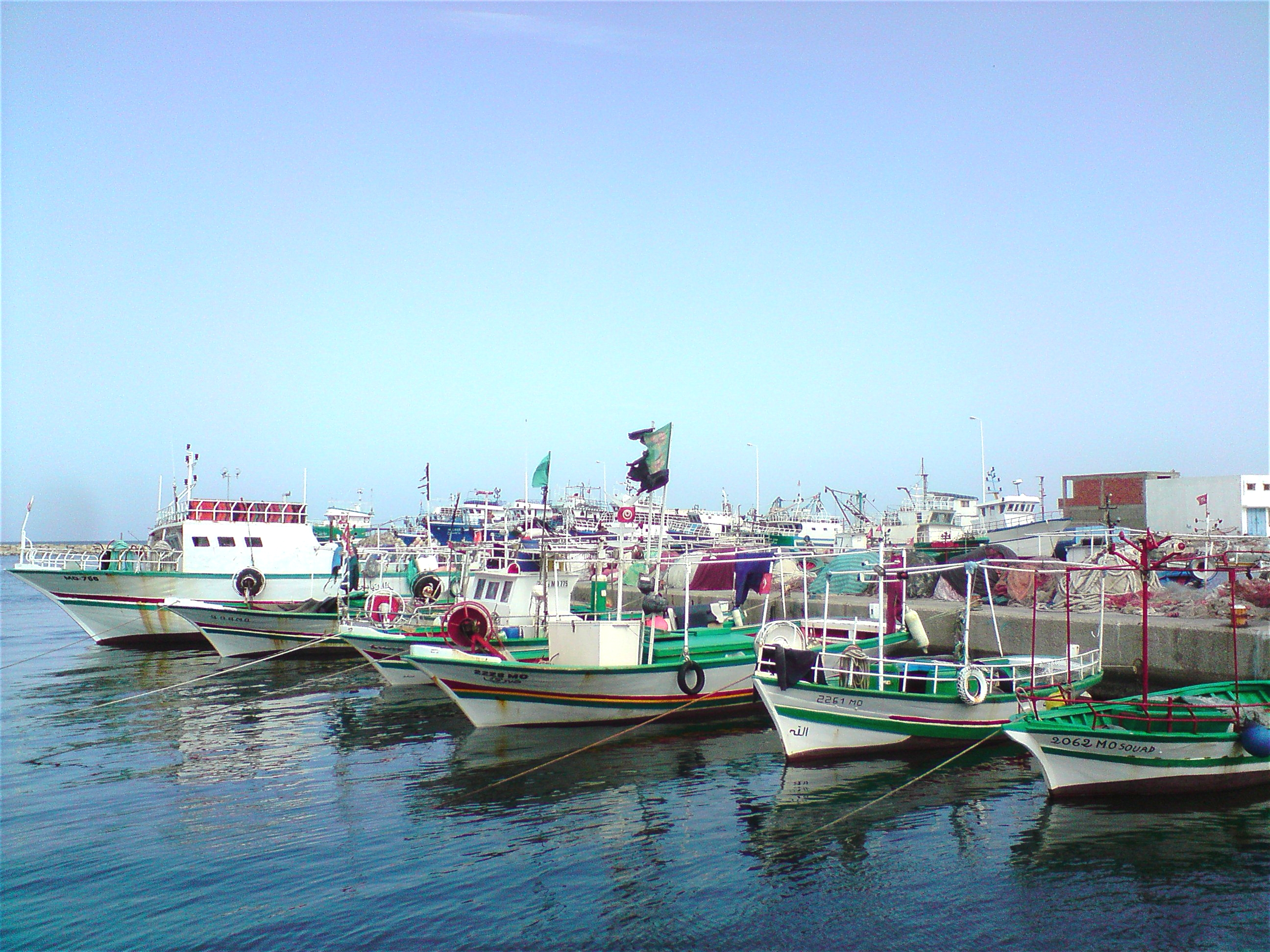 Port and fishing boats in Sayada